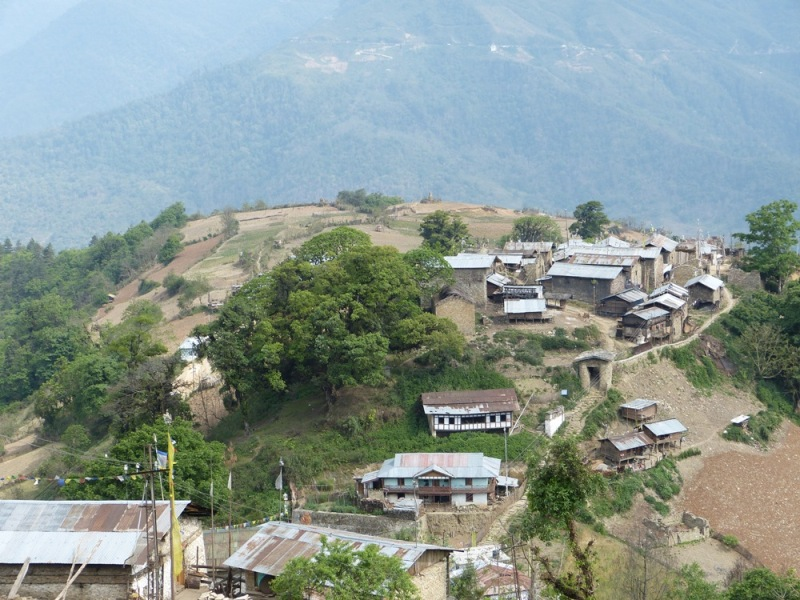 bird eye view of Thembang